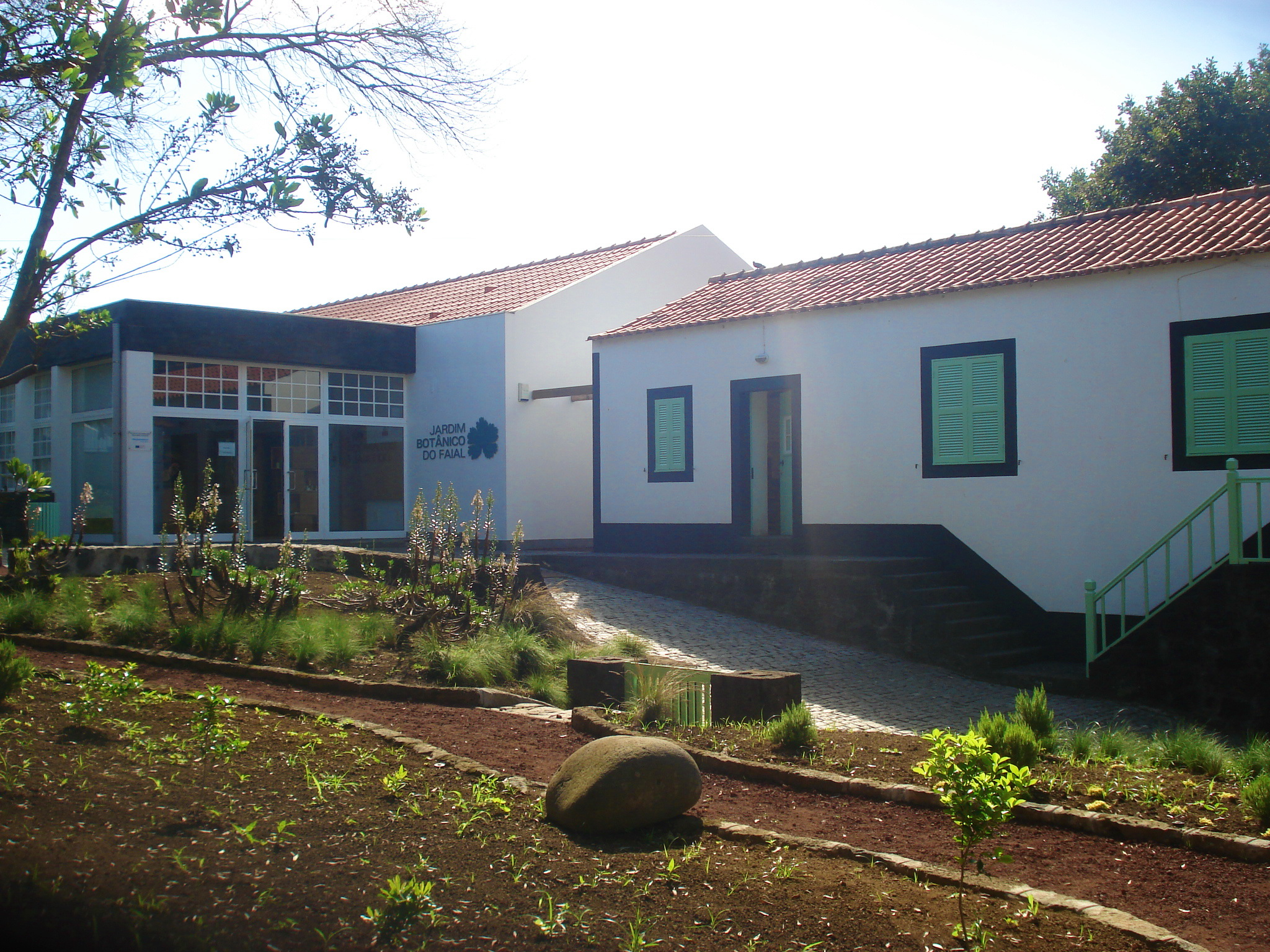 The main building and research pavillon of the Botanical Garden of Faial, civil parish of Flamengos, municipality of Horta (Azores), Portugal